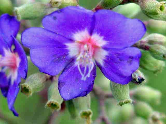 Flower of Tibouchina sp.. Photo by M. A. P. Accardo Filho.